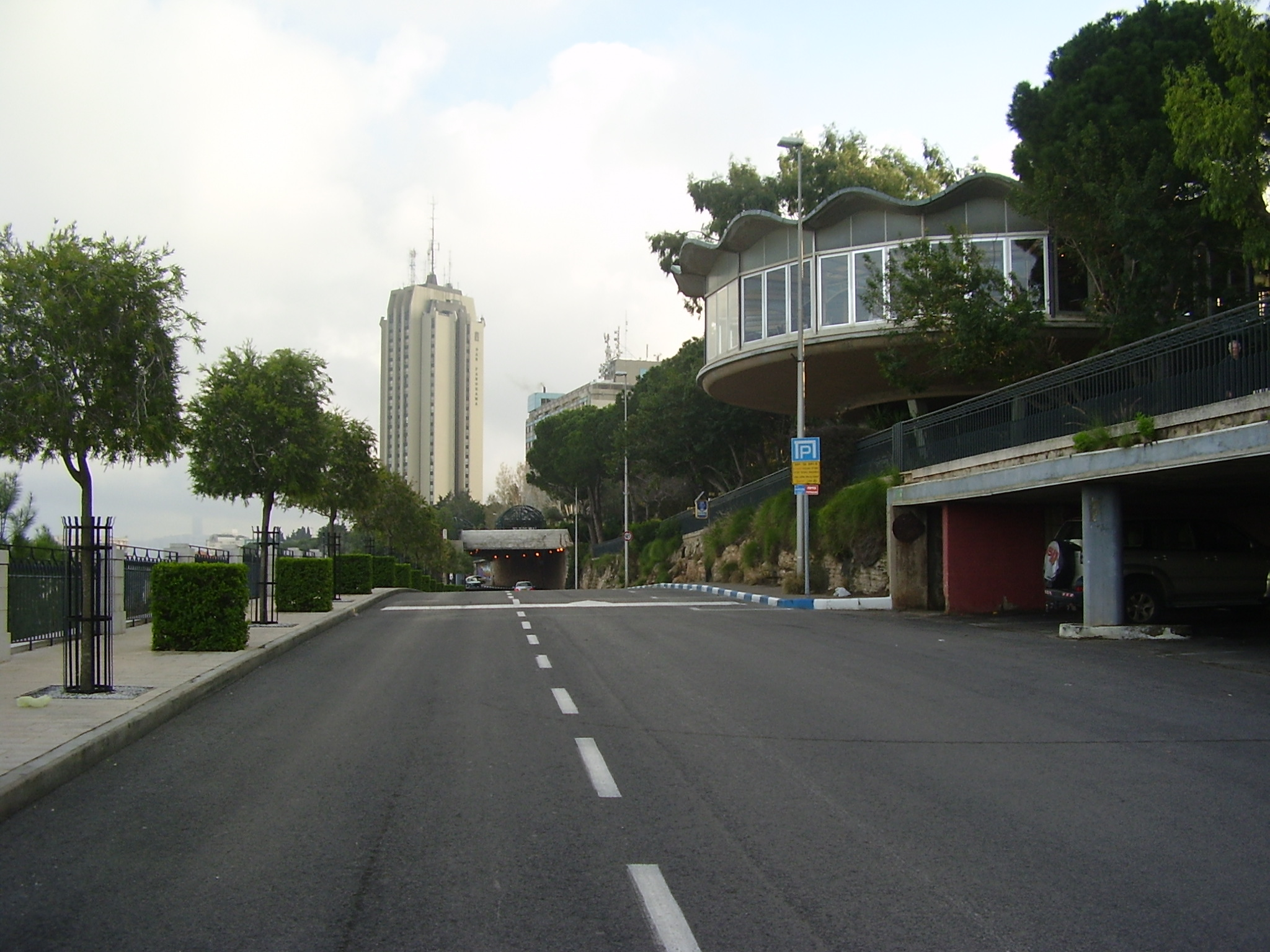 yefe nof (panorama) road in haifa